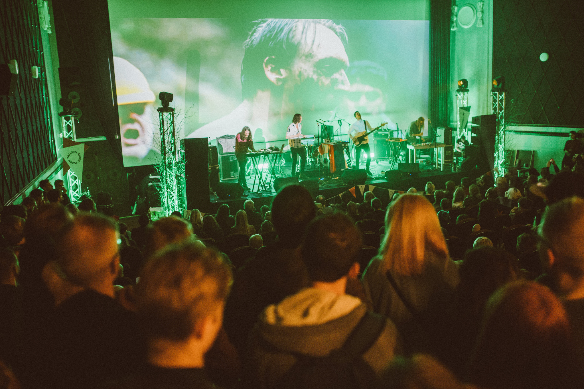 Liima kontsert kino Sõpruses